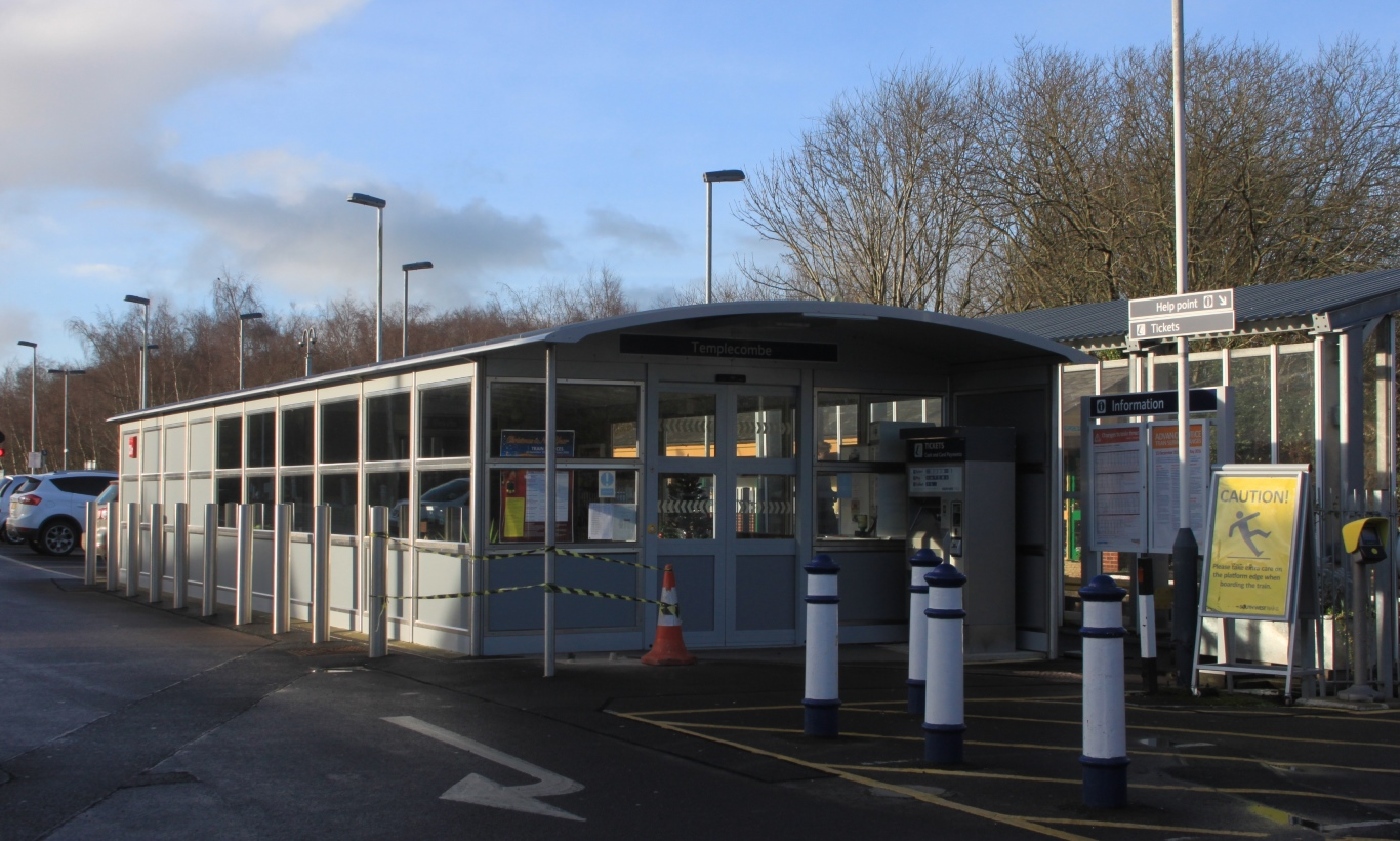 The ticket office at Templecombe station in Somerset. This was erected in about 2012 when the station was rebuilt.